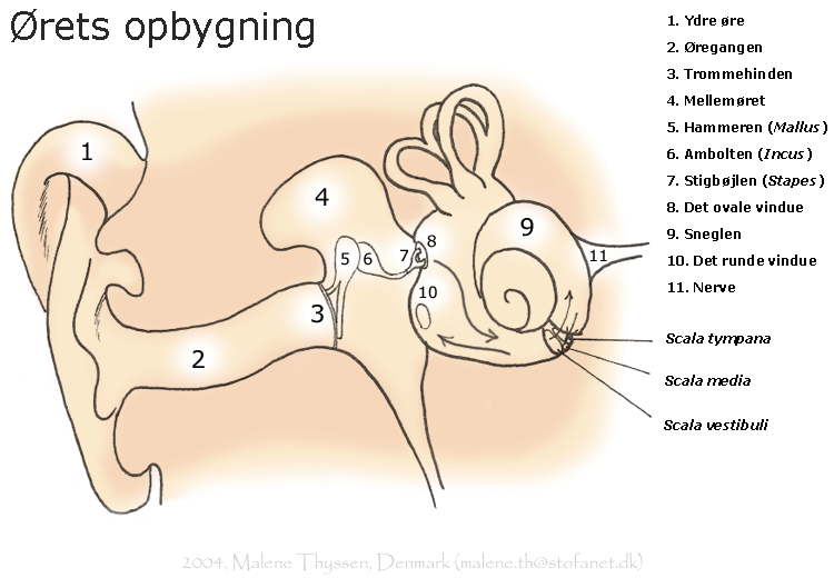 Physiology of the ear in Danish